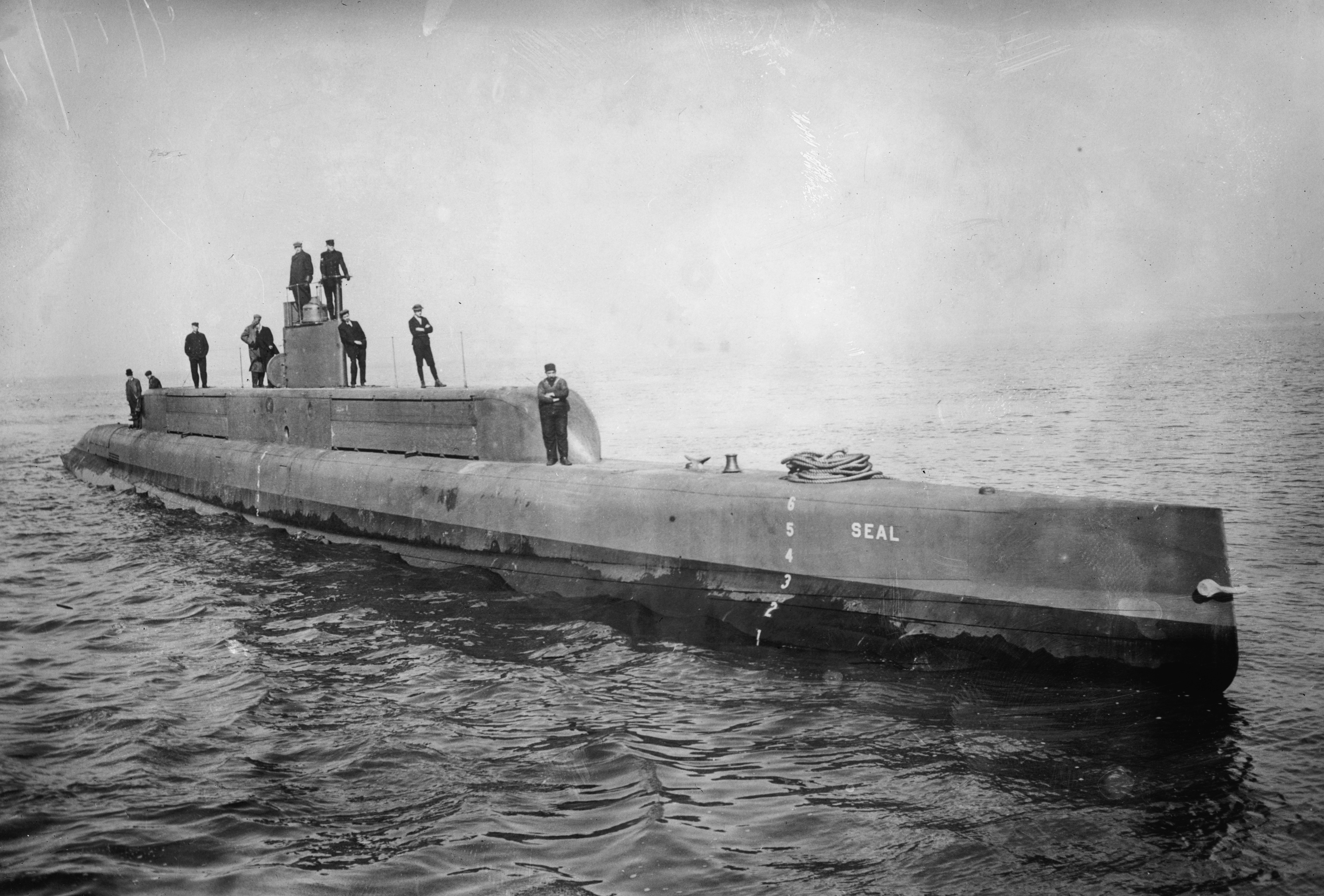 Photo of USS G-1 (SS-19½) AKA USS seal a G class submarine